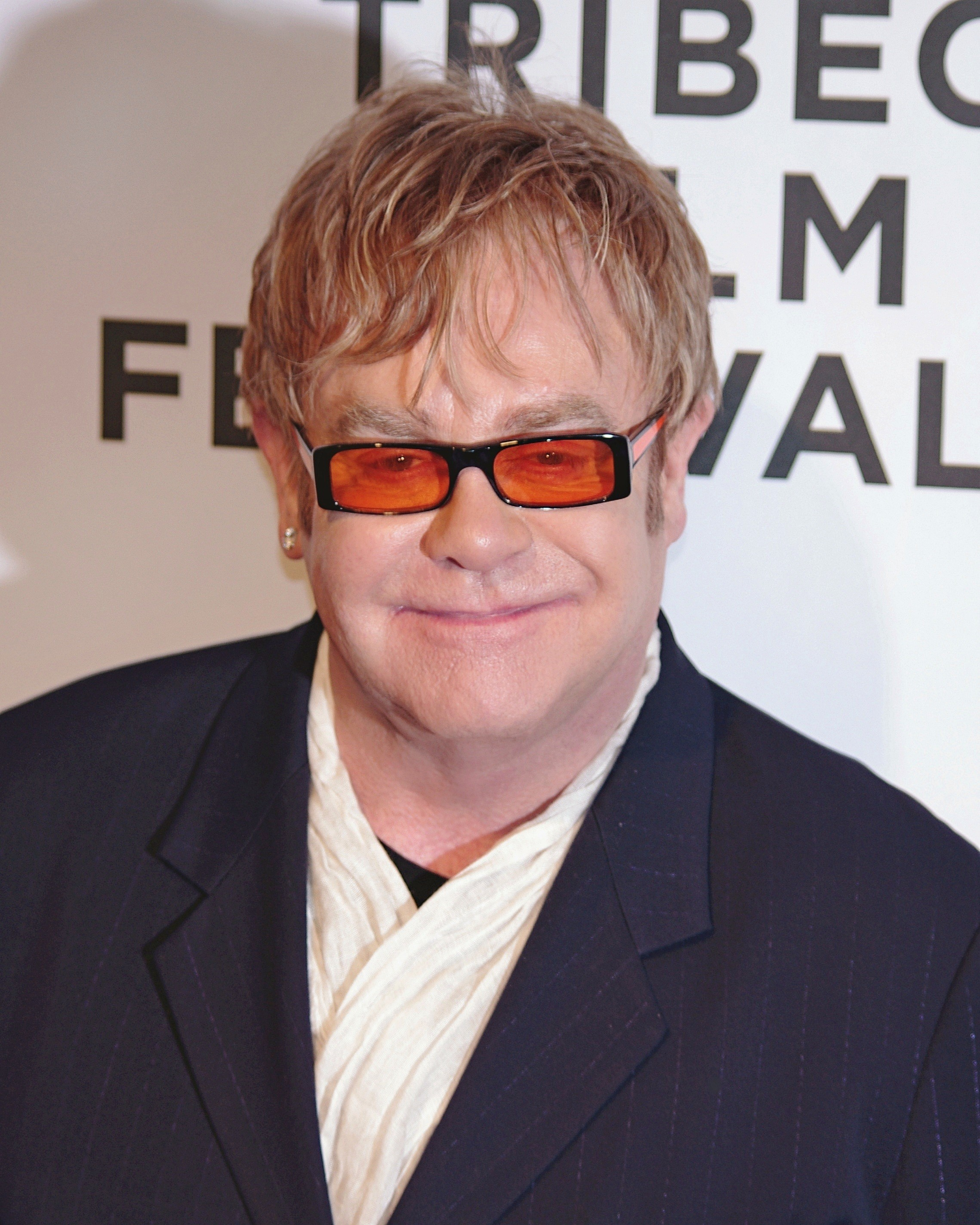 Elton John attending the premiere of The Union at the Tribeca Film Festival.